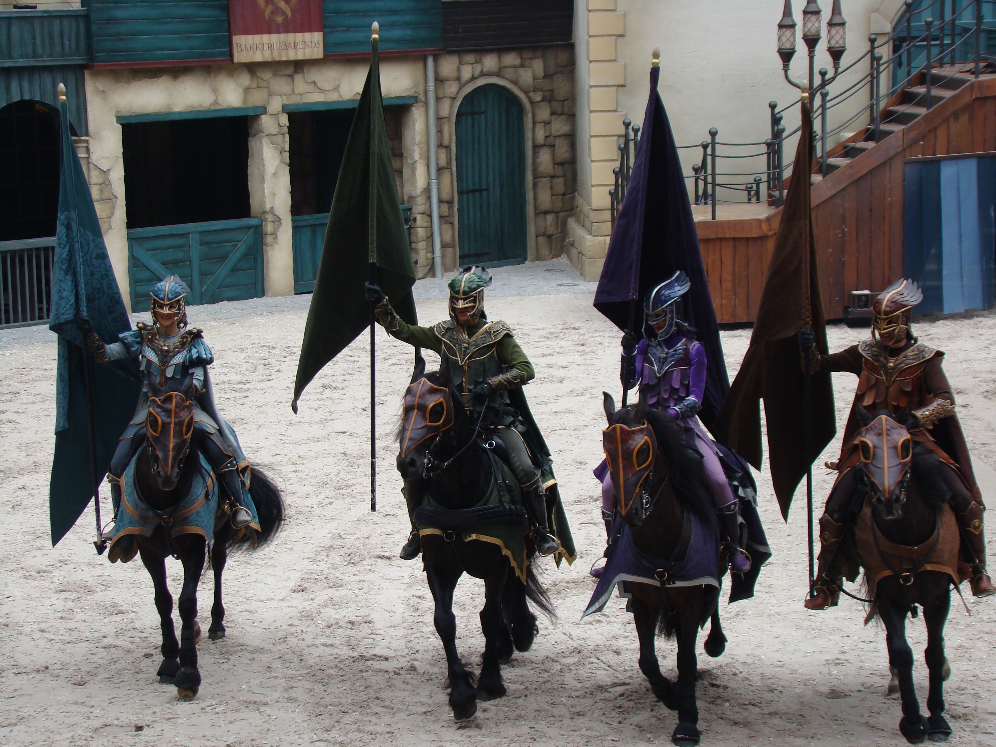 Impressions of Raveleijn, Efteling at Kaatsheuvel